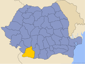 Location of Dolj County in Romania.